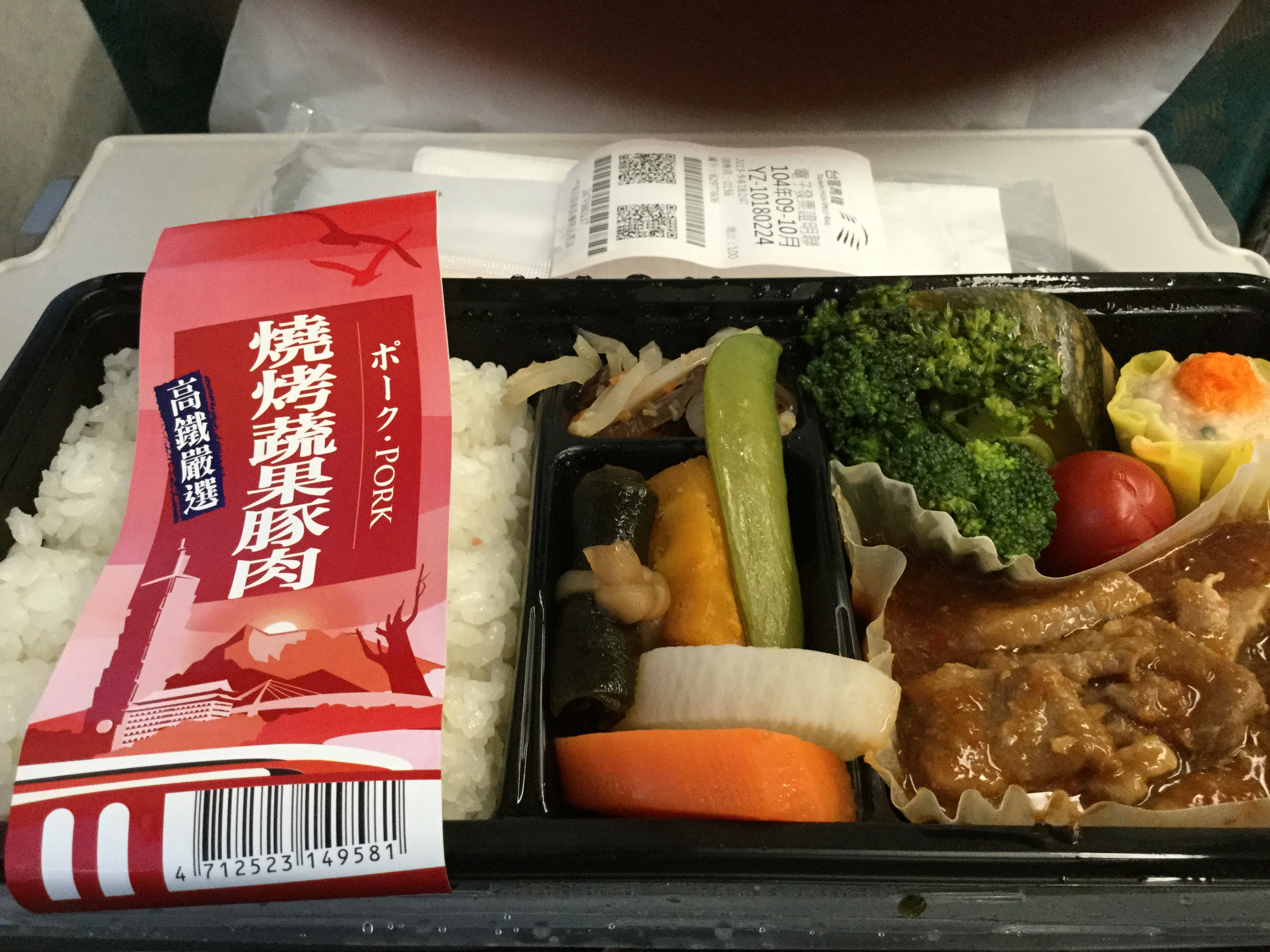 THSR Meal Box